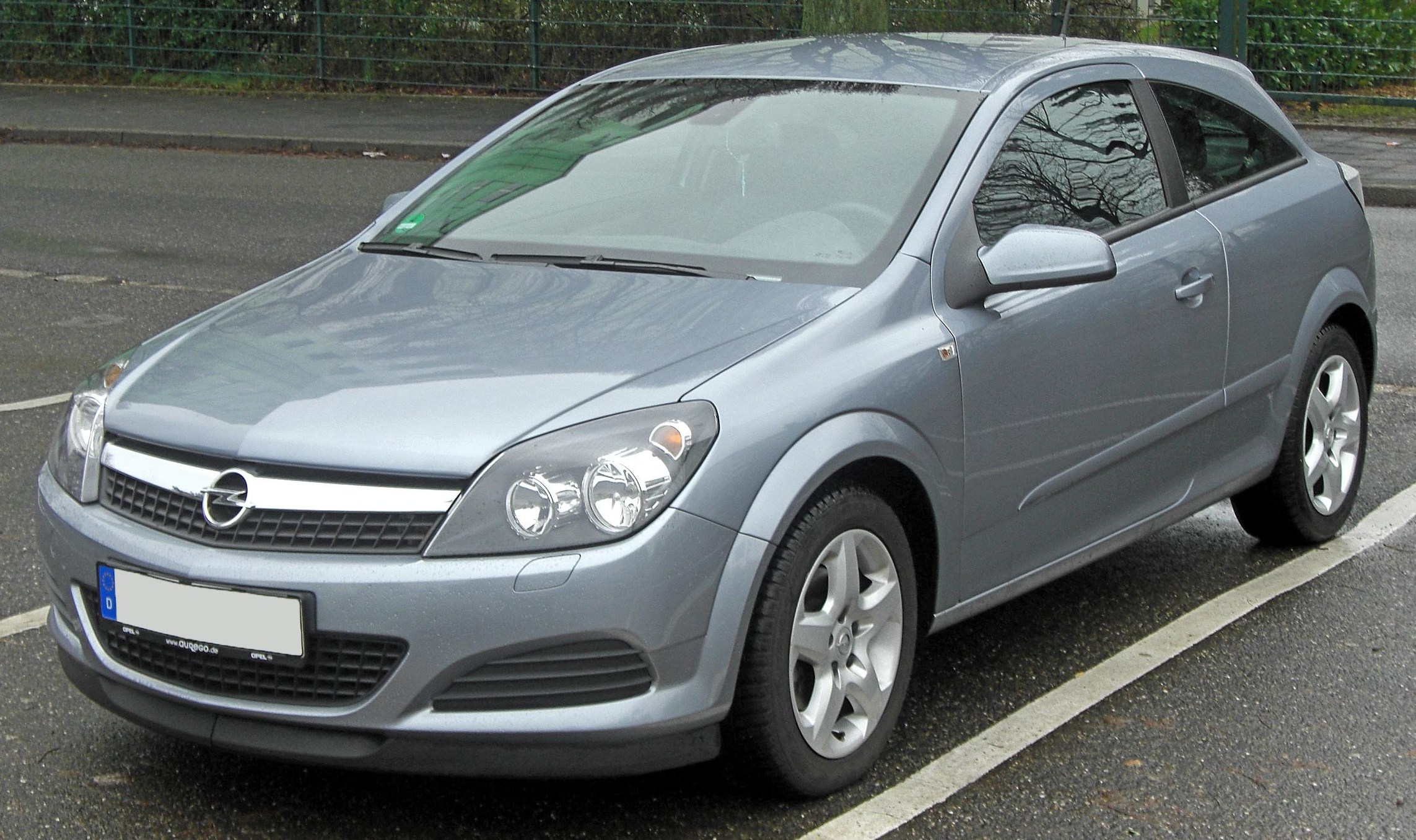 Description: Opel Astra GTC Source: Matthias Other Version(s)